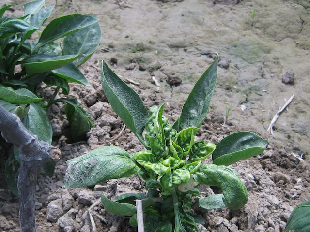 Capsicum plant inflicted with leaf curl virus